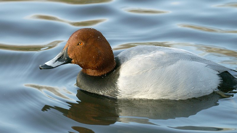 Pochard (Aythya ferina) This image was created by Ken Billington. If you are interested in a high resolution copy of this image, please contact the author Ken Billington in order to negotiate conditions of use. Do not copy this image illegally by ignoring the terms of the license below, as it is not in the public domain. If you would like special permission to use, license, or purchase the image please contact me to negotiate terms. More free images can be found on Ken Billington's Bird & Wildlife Photography.